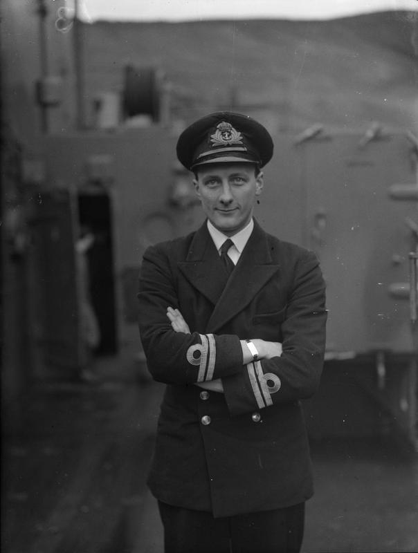 Portraits of Submarine Captains and Their First Lieutenants. 6 February 1943, Holy Loch. Lieut P E Newstead, RN, Captain of HMS TRIDENT.